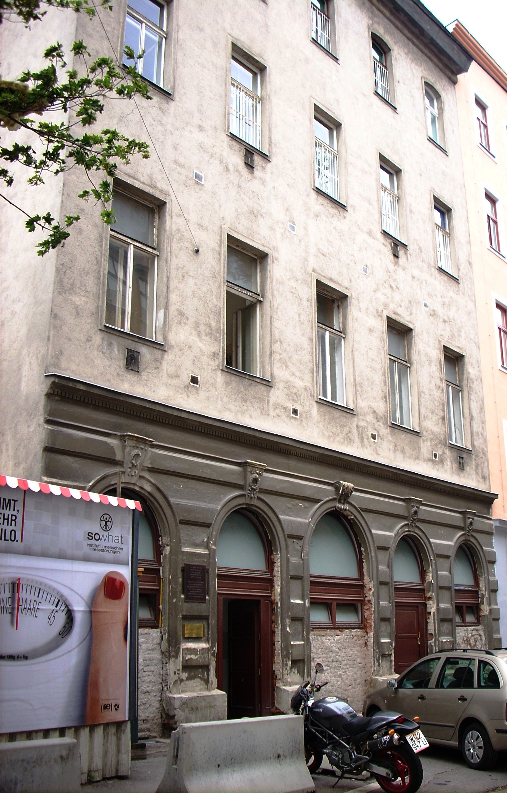 Adjacent building housing Khal Chassidim prior to renovations.